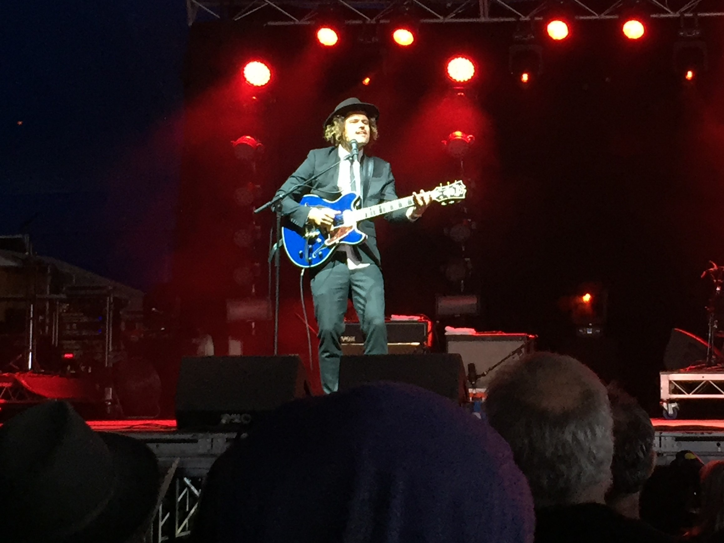 Ash Grunwald performing live at Queencliff Music Festival on Saturday, November 23rd 2019. This was in support of this 2019 album release 'Mojo'.